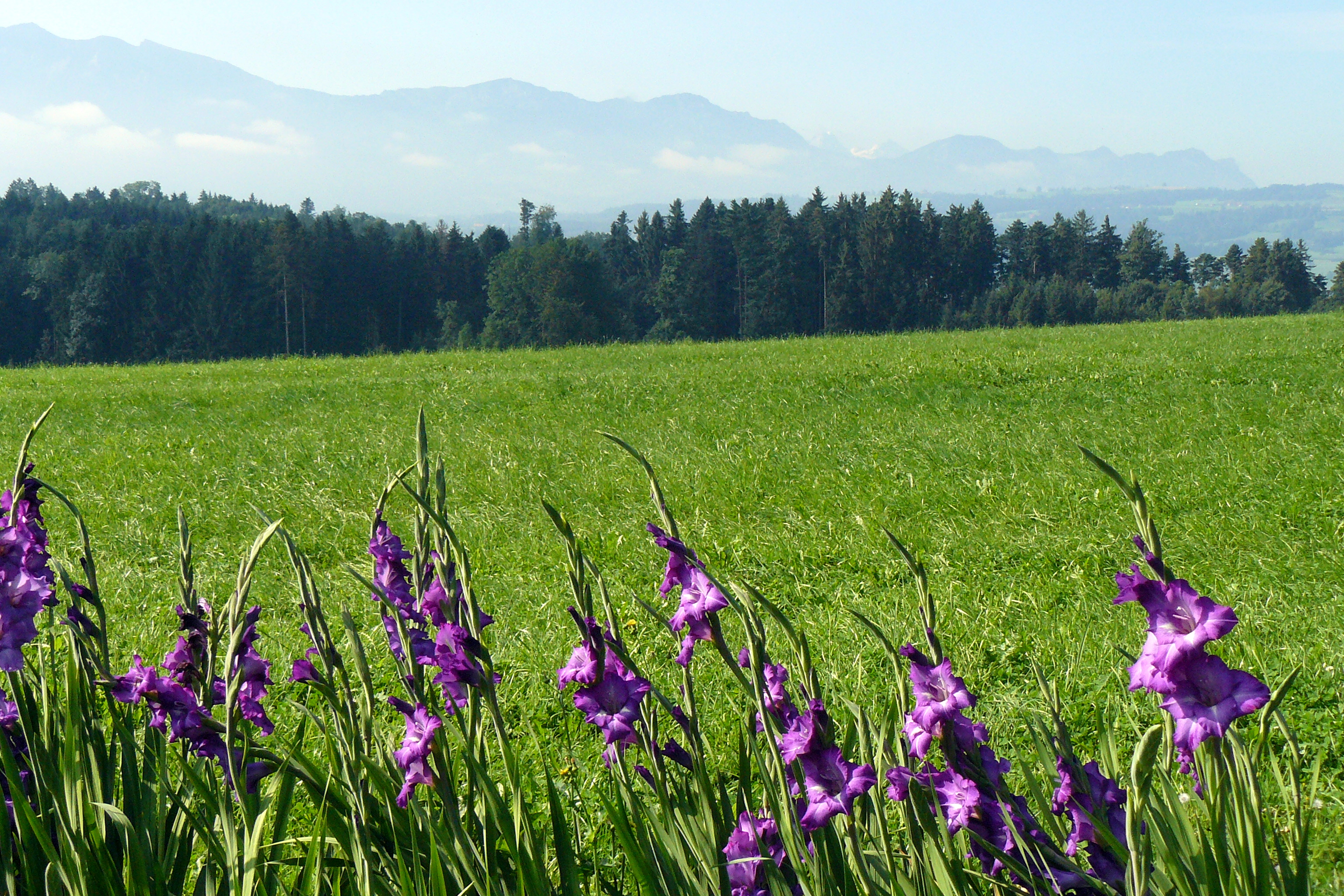 Place of the Battle of Sempach (Switzerland) in 1386